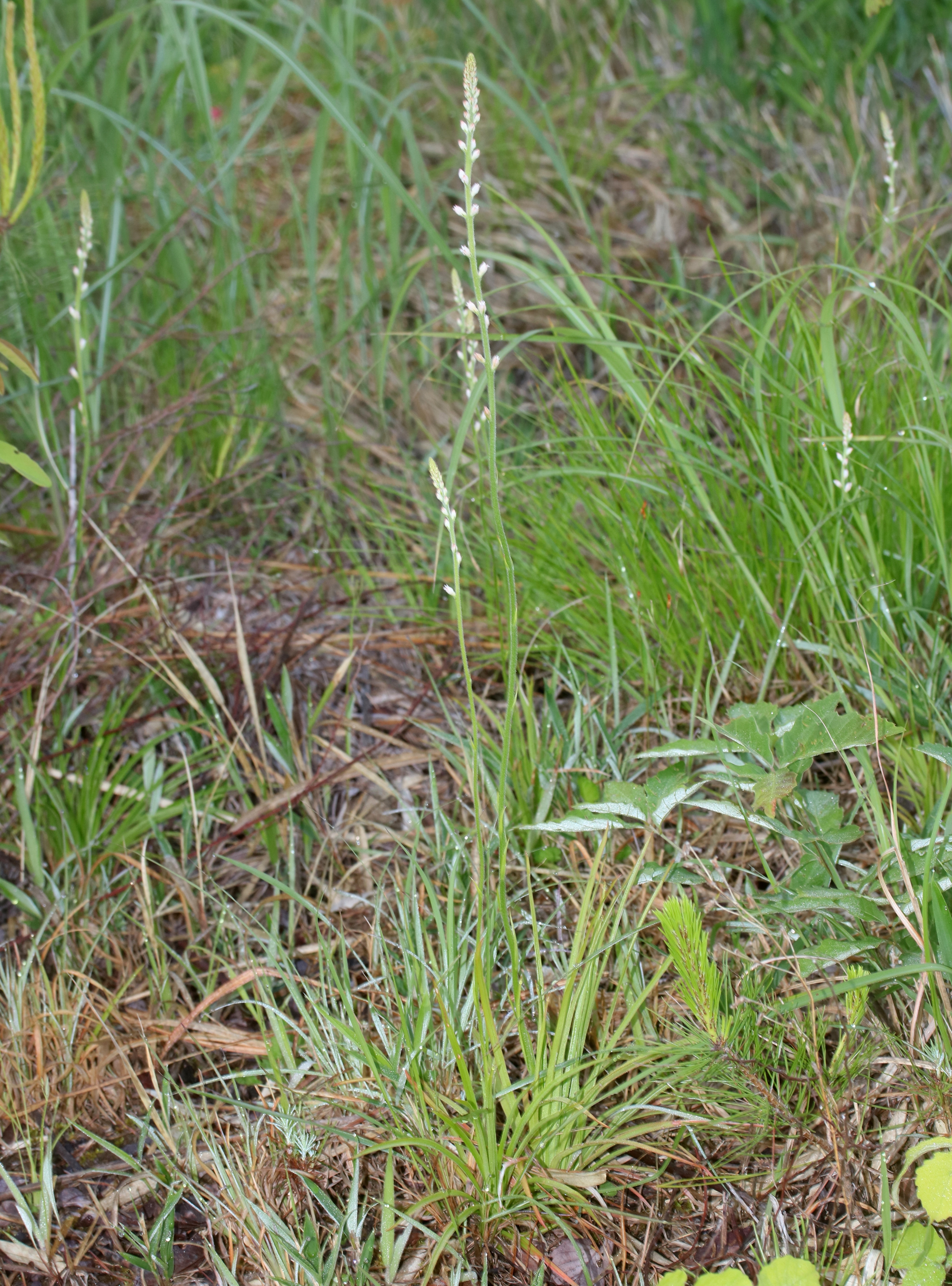 Aletris spicata in Yumihari Mountains, Shinshiro, Aichi Prefecture, Japan. Canon EOS Kiss X8i